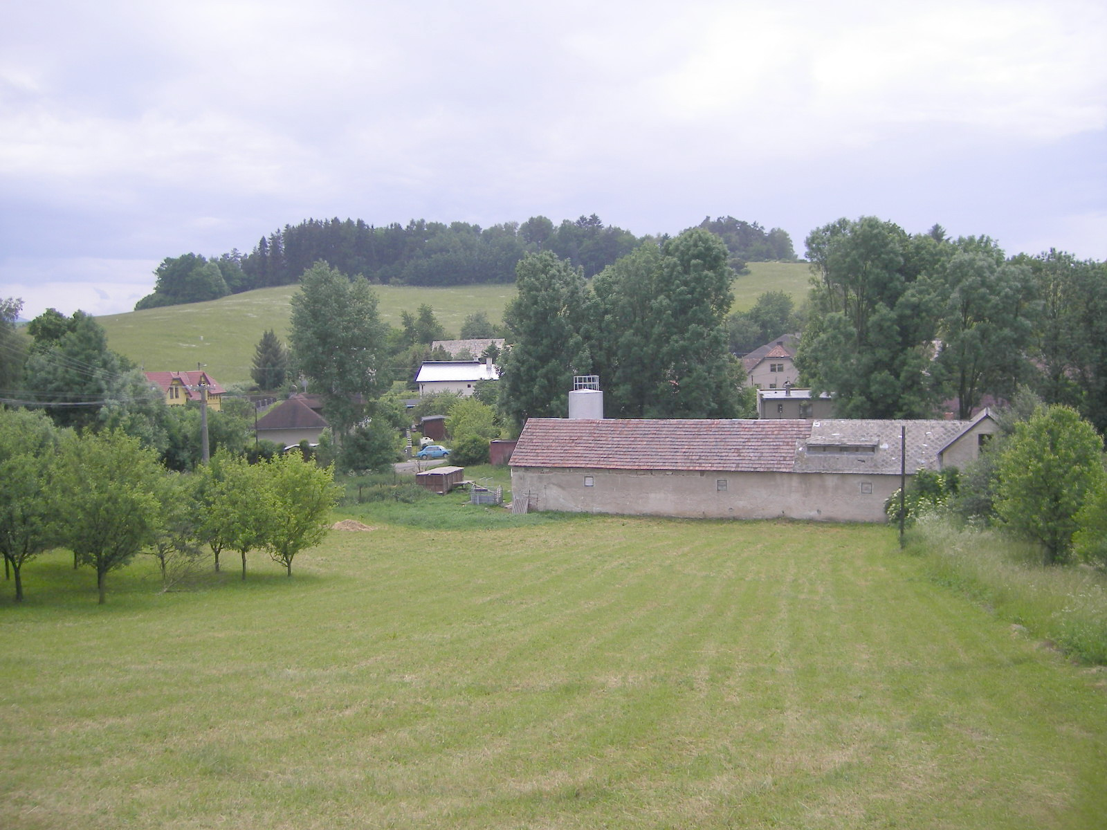 Dolný Kalník - landscape